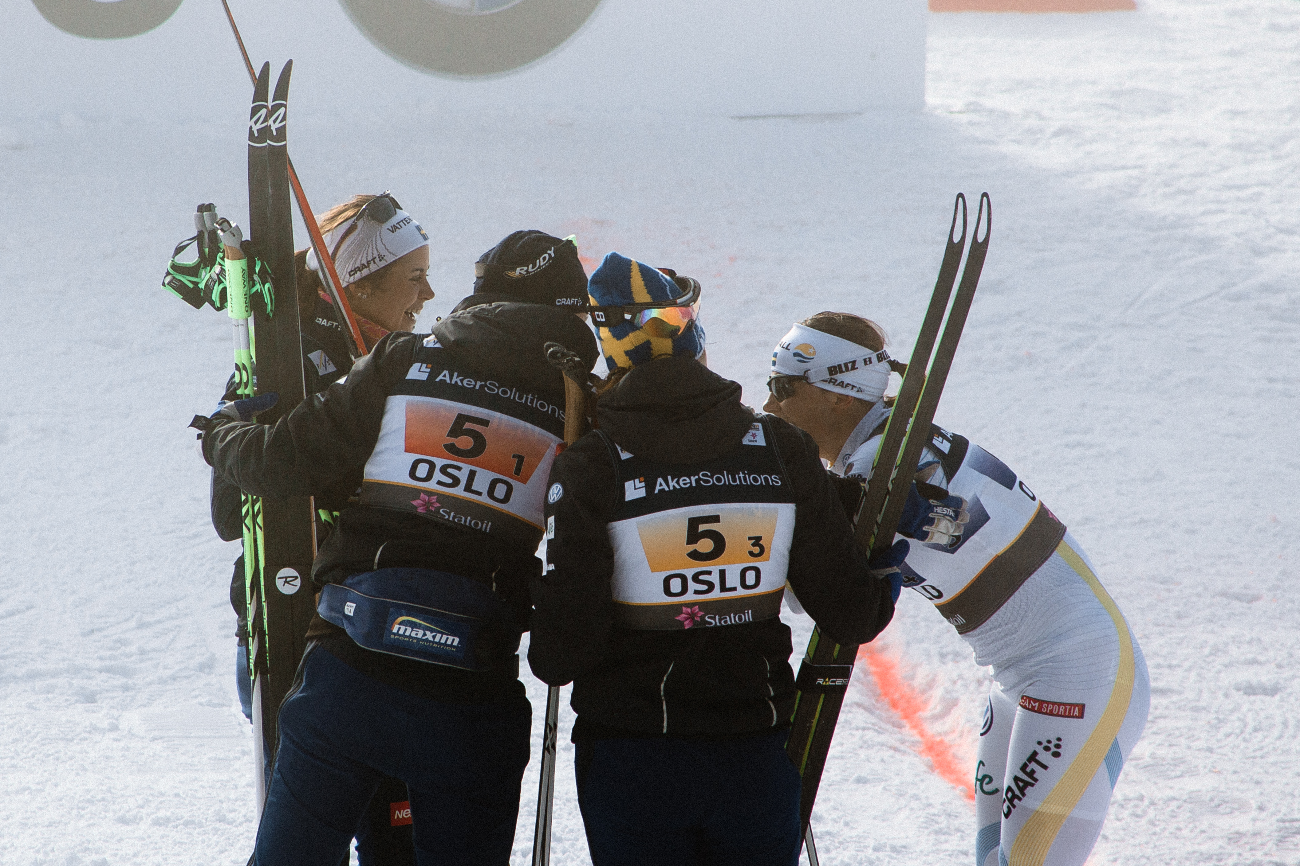 Swedish team at the women's relay at the FIS Nordic World Ski Championships 2011